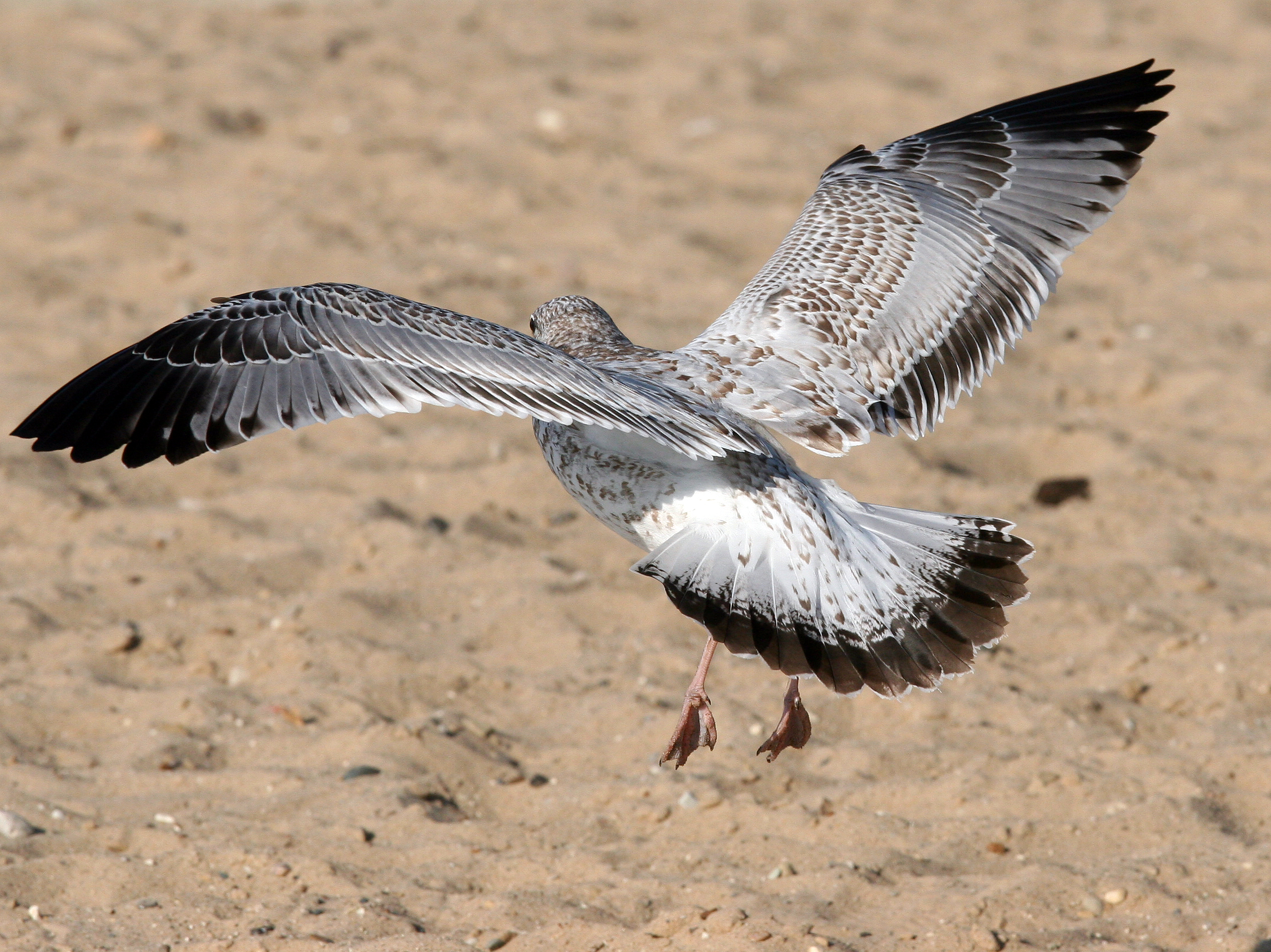 I have had dreams that I am flying, it is always a nice dream! Anyone else dream of flying?